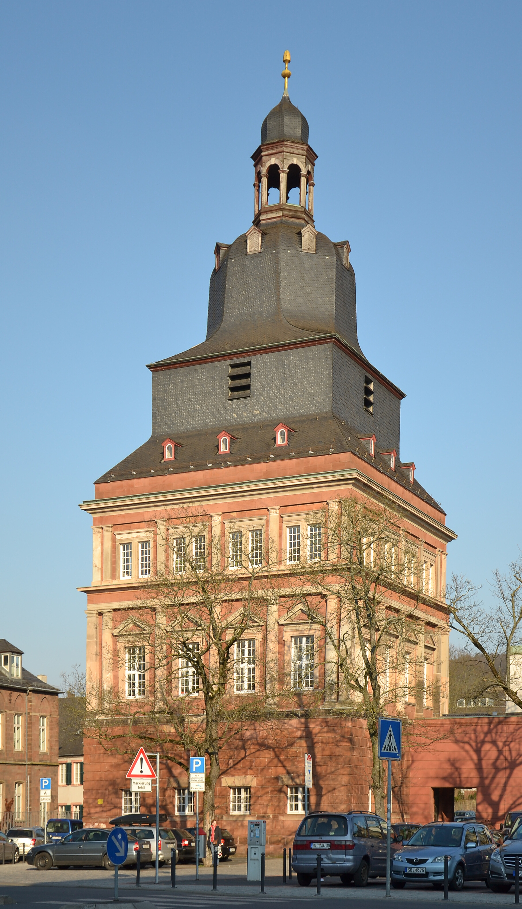 Red Tower in Trier, Germany